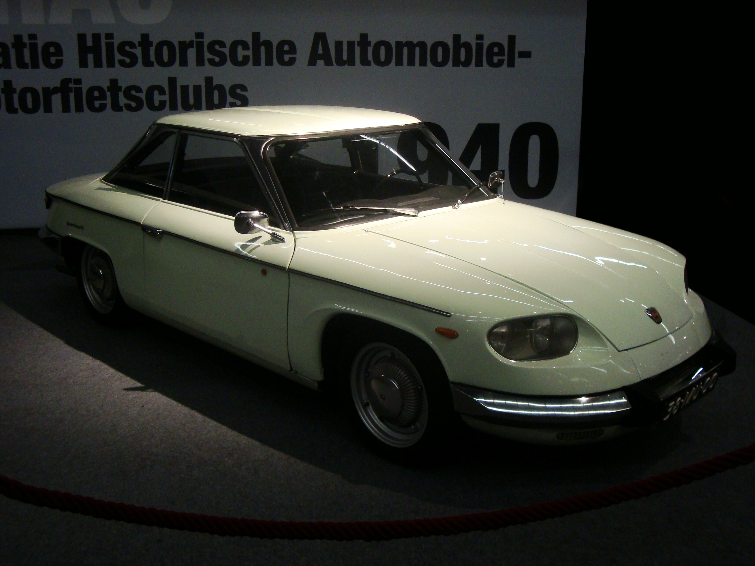 1964 Panhard 24CT at AutoRai, Amsterdam